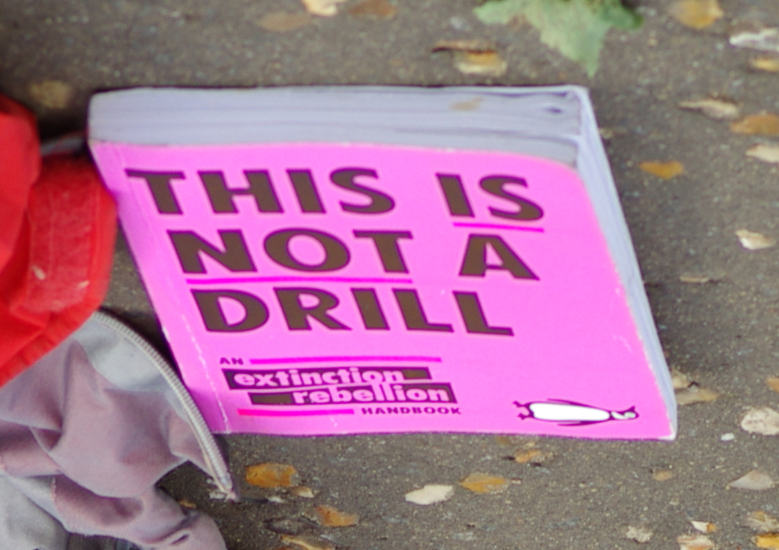 A copy of the book This Is Not a Drill: An Extinction Rebellion Handbook. Extinction Rebellion action in front of the Tate Modern (London).